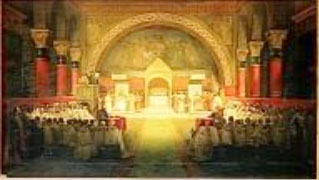 Templars in Paris